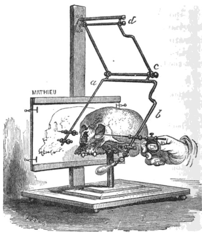 Picture of Stereograph designed by Paul Broca and manufactured by Mathieu Taken out of Paul Topinard (1878) "Anthropology" p. 268. Text appearing below image: Fig. 31 — Stereograph of M. Broca. The skull is placed on the craniophore in the position shown in the drawing. The same support, if turned, serves for the views in front and behind. A special support is substituted when we wish to have drawings according the the normal verticalis of the superior or inferior surface of the skull.